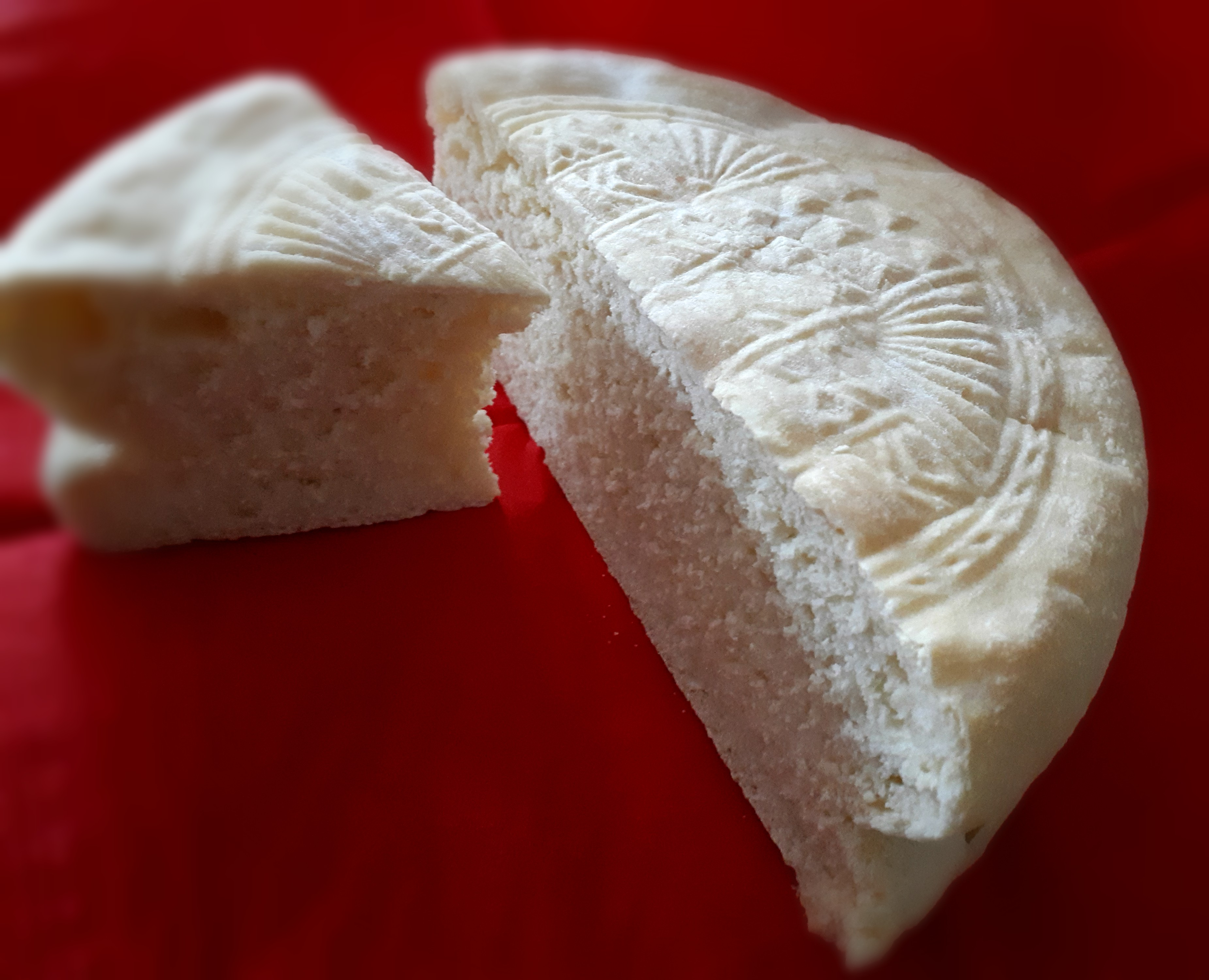 Prosphora - Orthodox bread stamped with a special prosphora seal